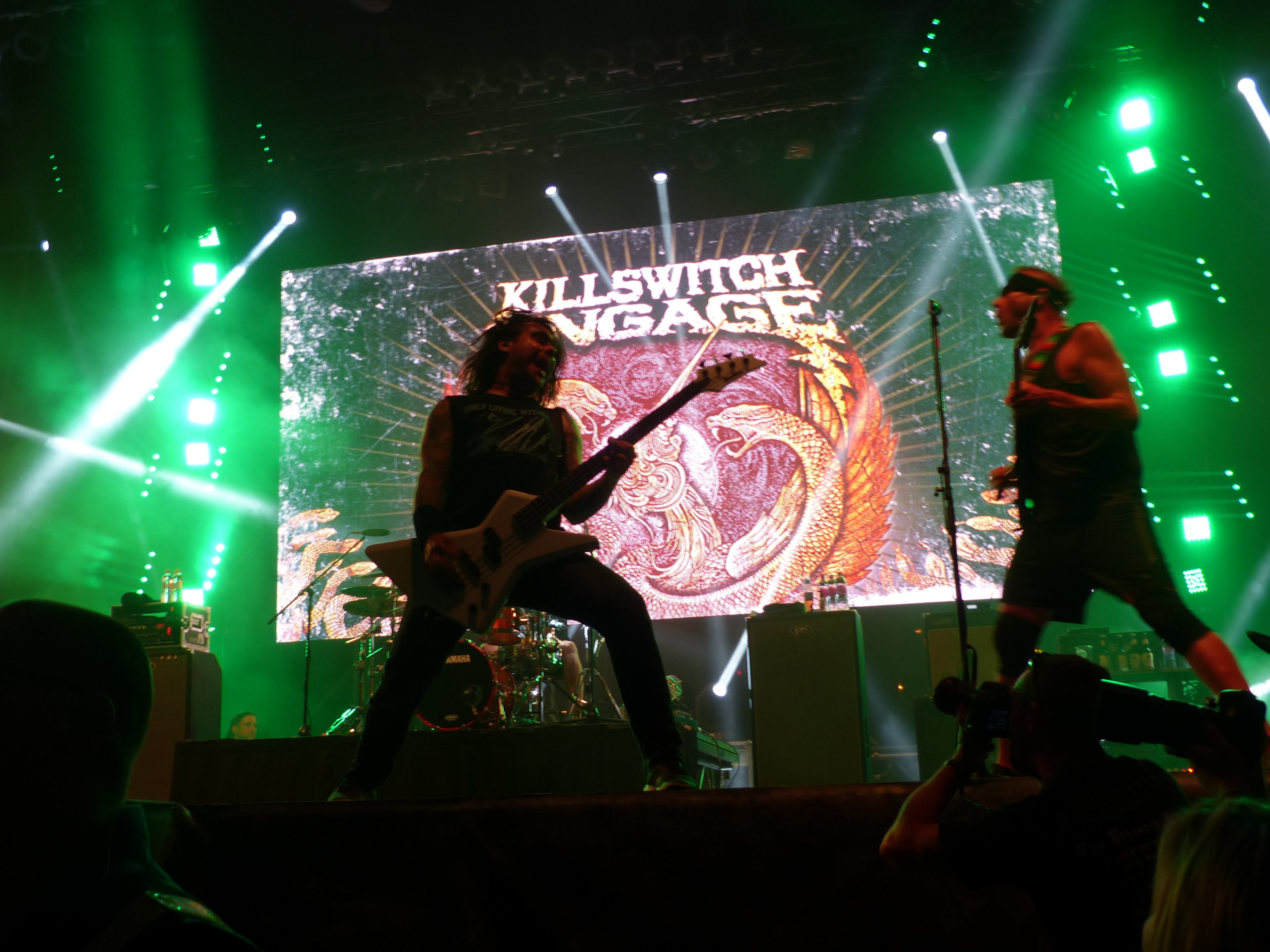 Killswitch Engage performing in Budapest. Taken on the 14th of June, 2016. Budapest Park, Budapest, Hungary.